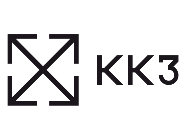 Logo Klub konkretistu KK3 Hradec Kralove